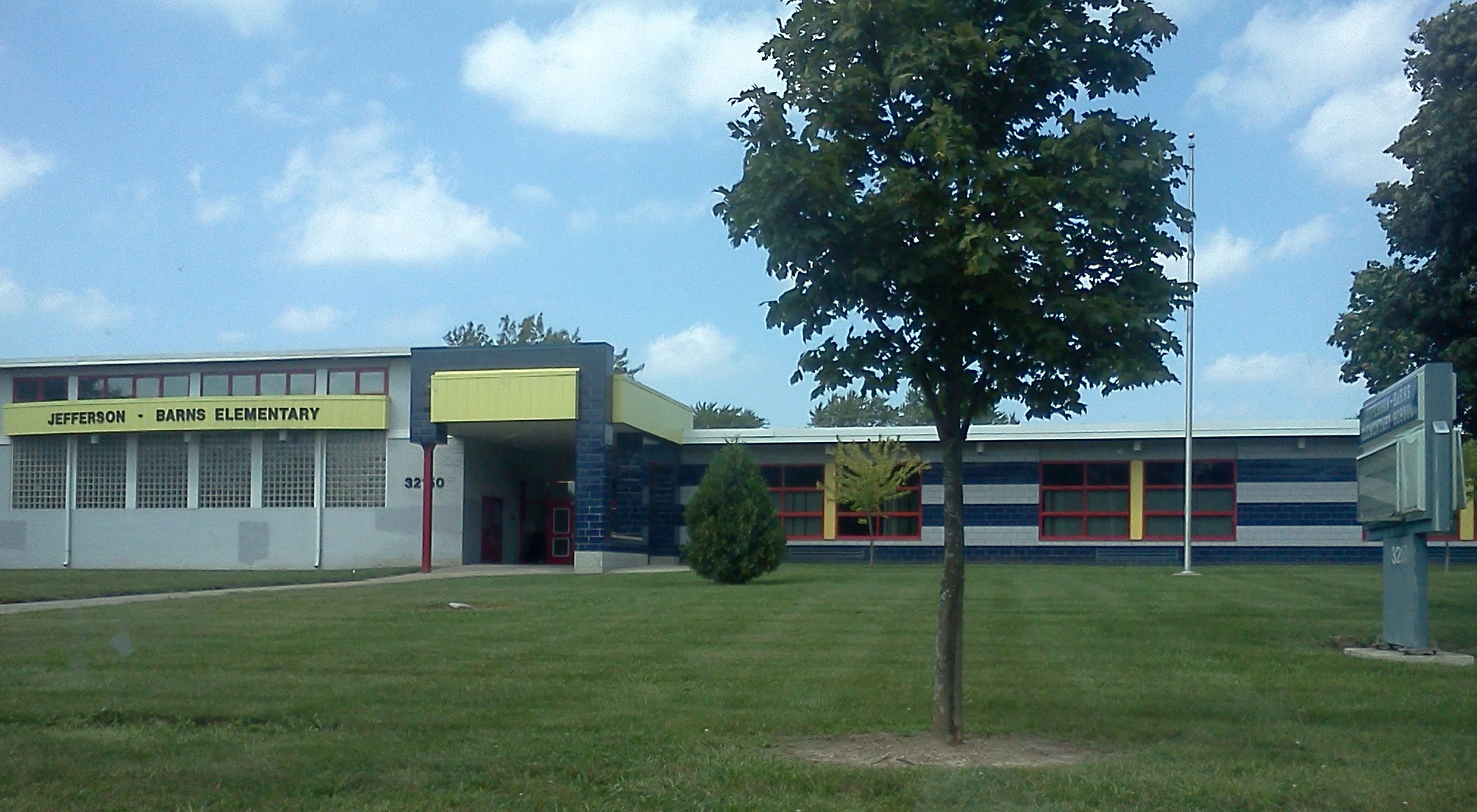 Jefferson-Barns Elementary School, Norwayne Historic District, Westland, MI